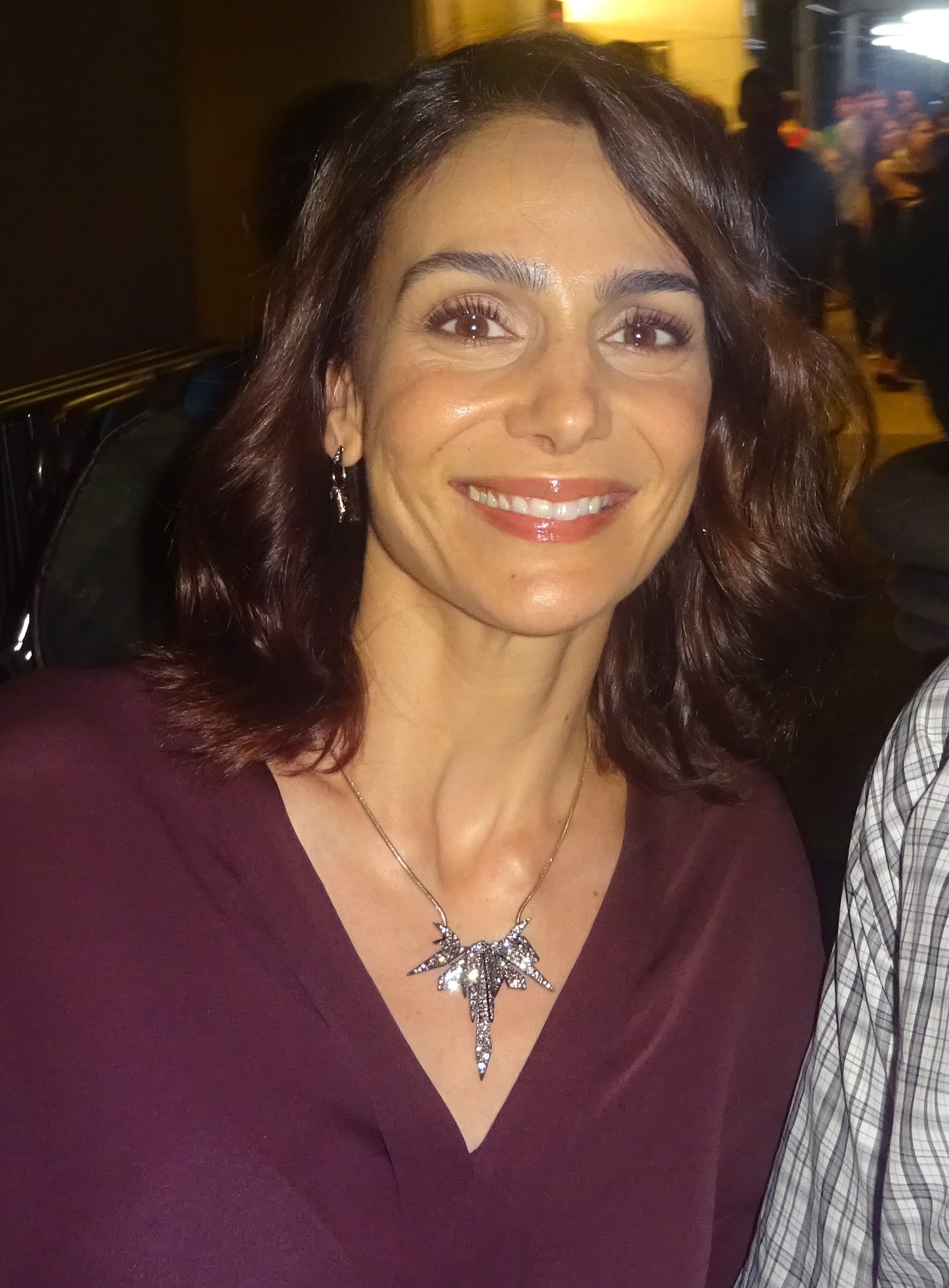 Actress Annie Parisse in 2017